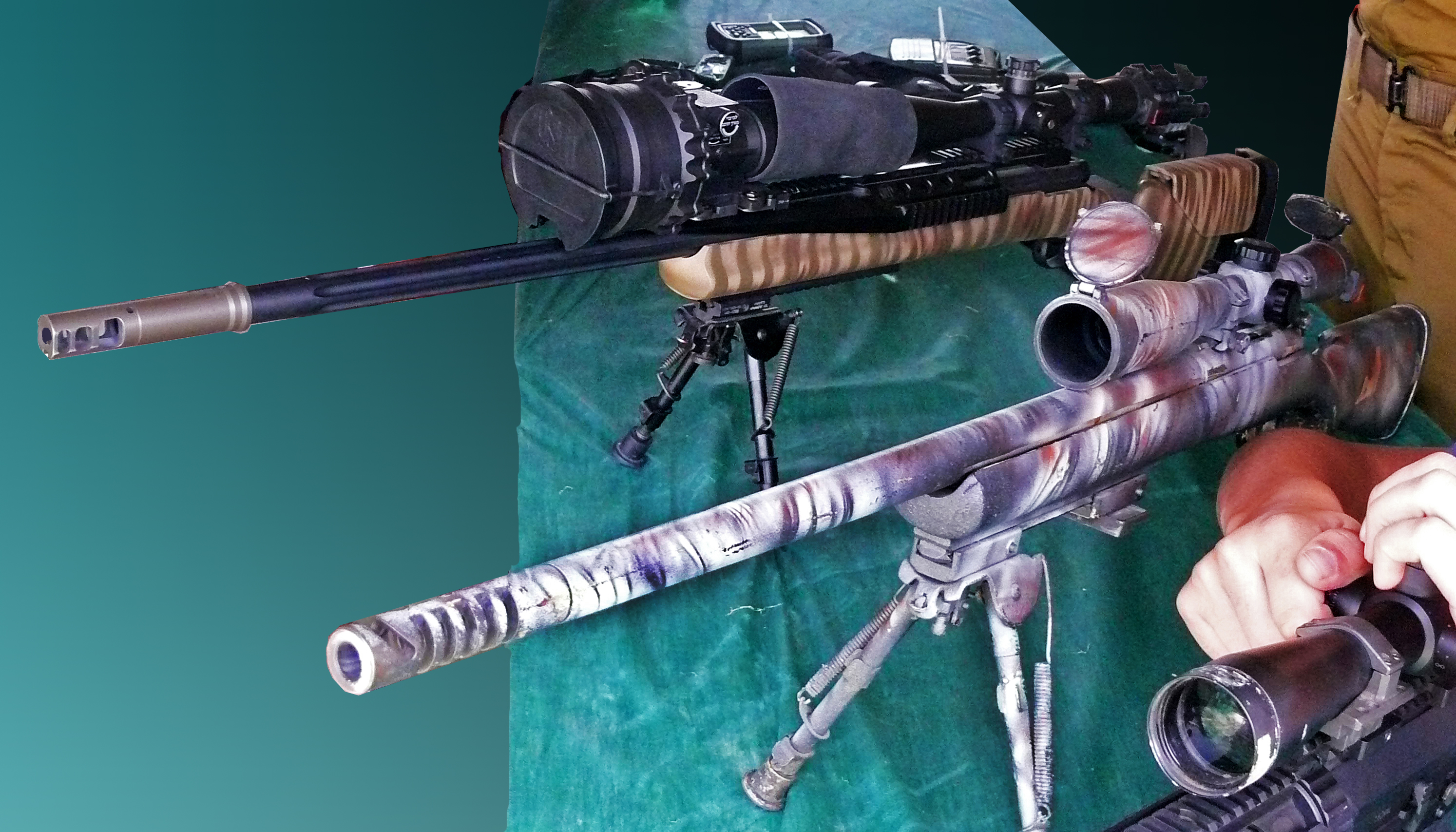 Israel Defense Forces sniper rifles: H-S Precision HTR 2000 "Barak" and Reminton M24 SWS